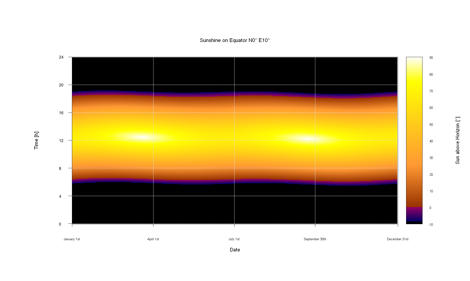 Carpet Plot showing Elevation of sun above horizon on Equator